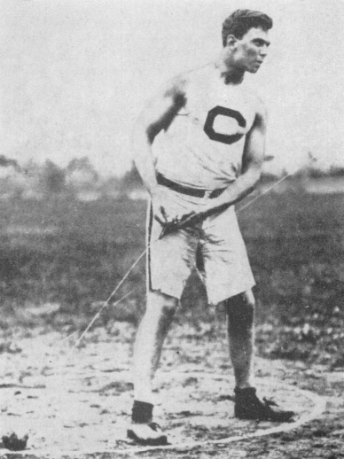 Lee Talbott, 1908 Olympian for the United States, readies for the hammer throw while competing for Cornell University.